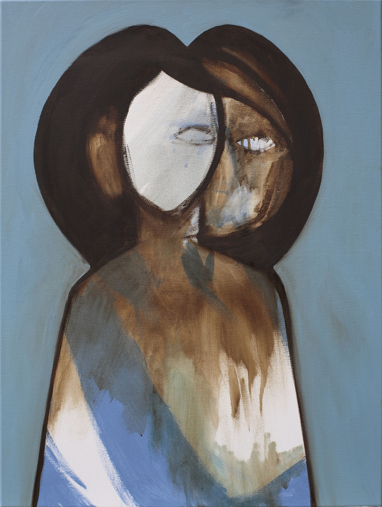 Painting by Sebastian Bieniek. Titeled „Face 80x60 No. 6“, 2015. Oil on canvas. From the oeuvre of Bieniek-Face. Abstract portrait. Berlin based artist. Painter.